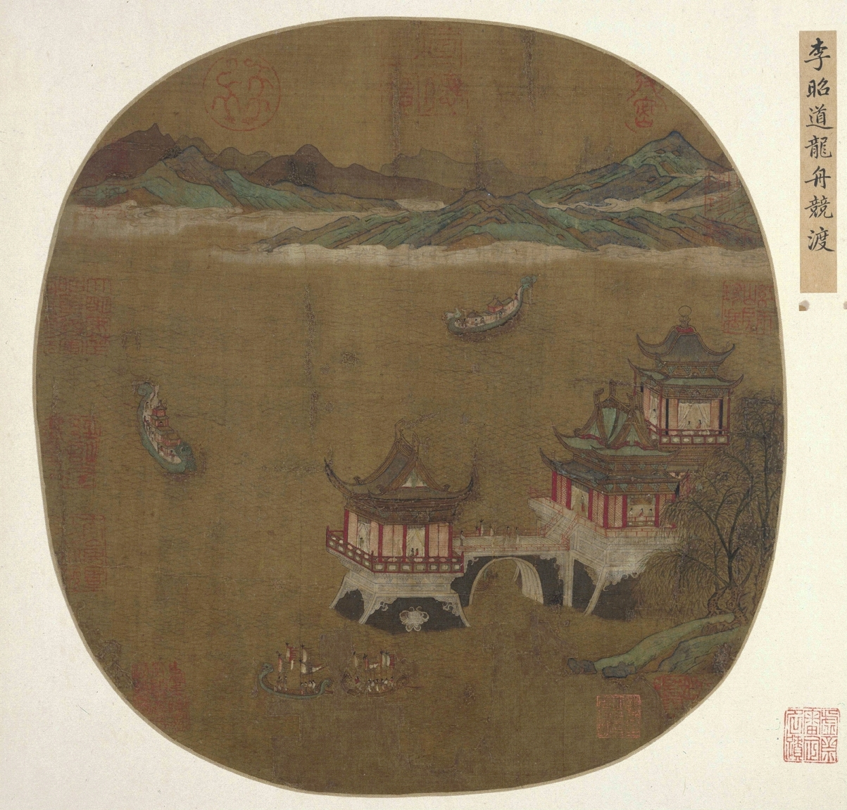 Attributed to Li Zhaodao Dragon-boat Race. Palace Museum, Beijing.